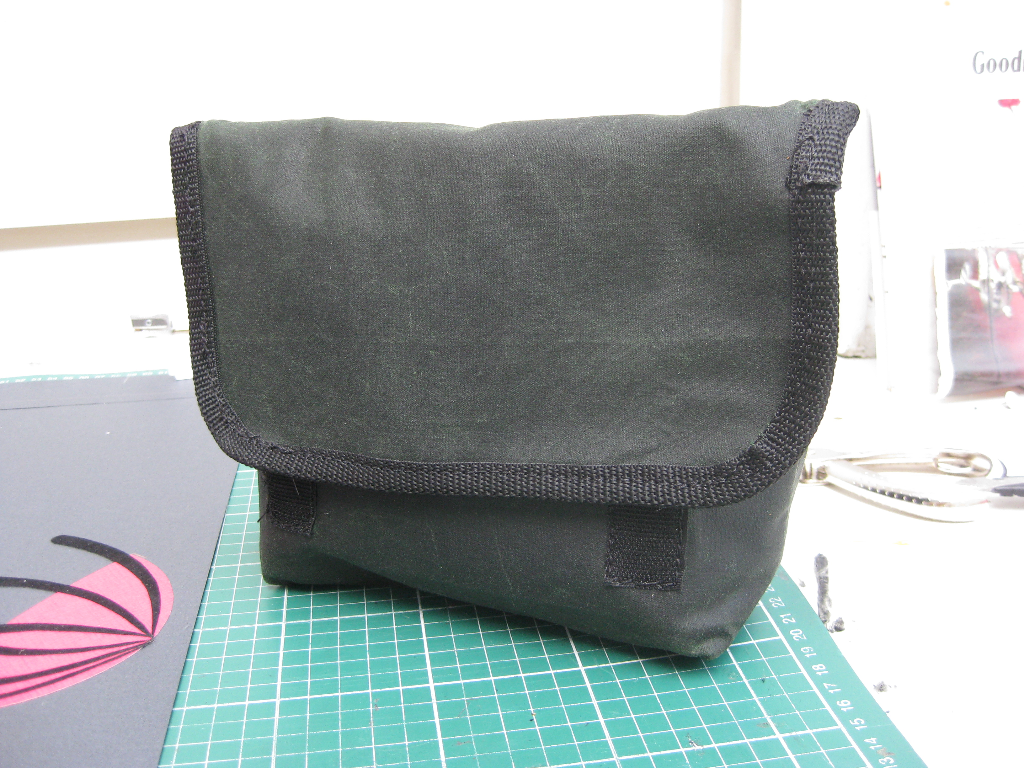 A waxed cotton pouch